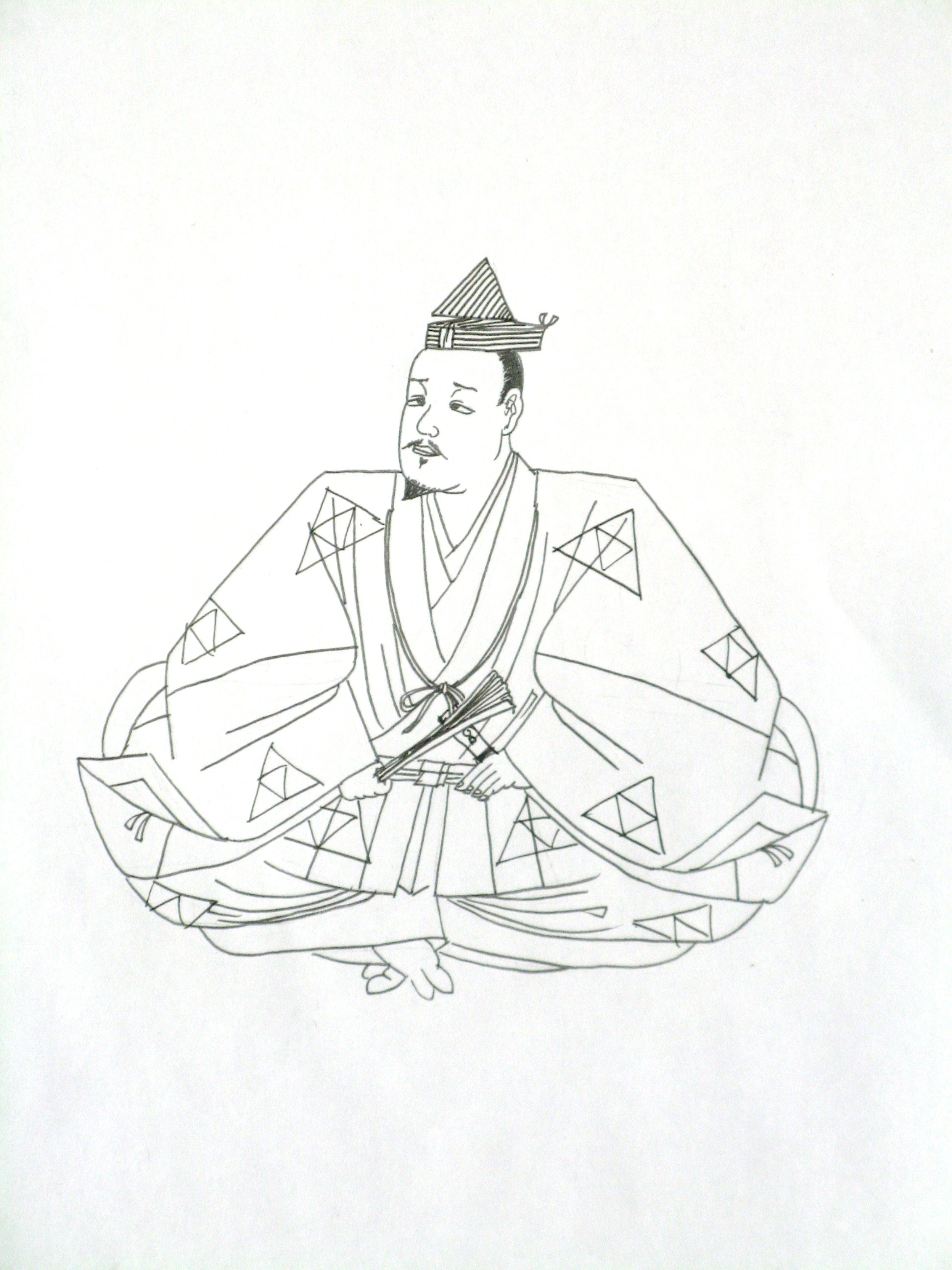 Houjou Hirotoki